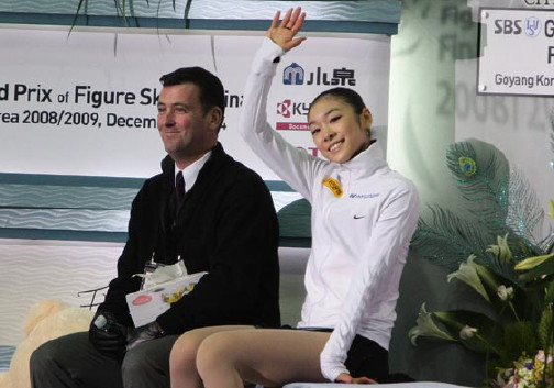 Kim sits with coach Brian Orser in the kiss & cry zone following her short program at the 2008-09 Grand Prix Final.